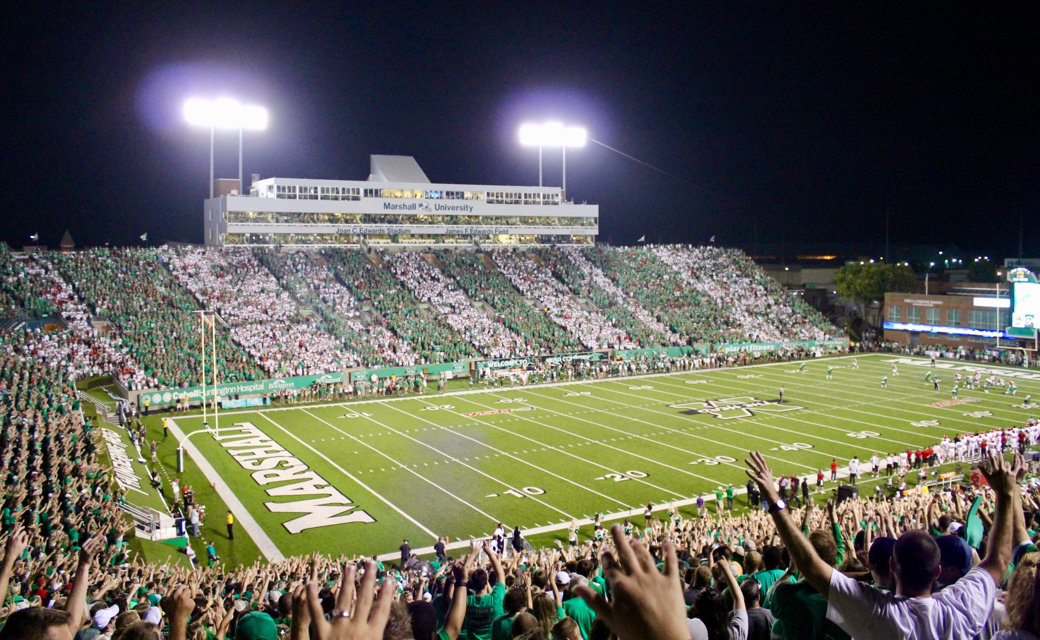 Marshall vs Louisville at Joan C. Edwards Stadium, August 24, 2016.